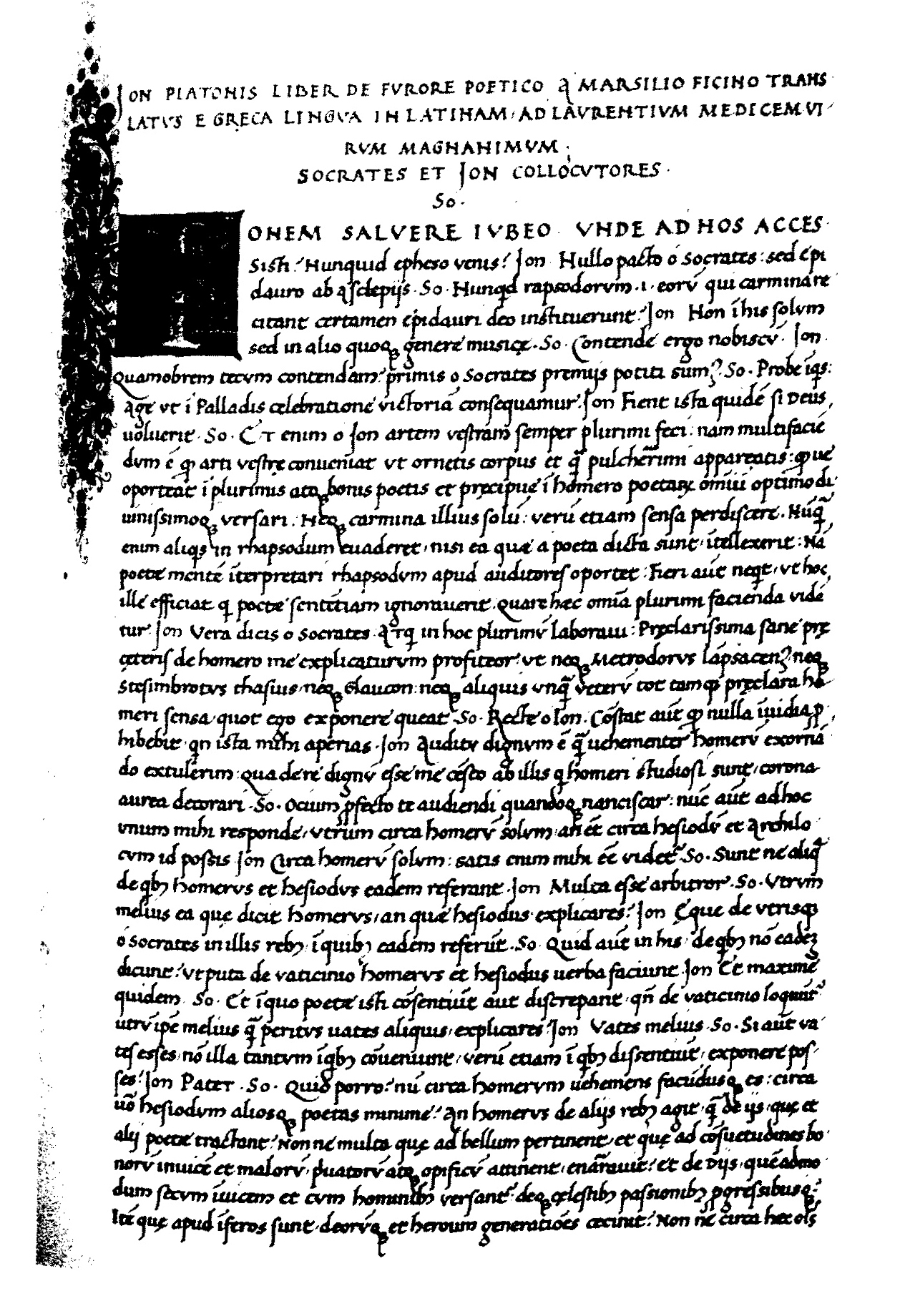 Laurentianus 82, 6 folium 116r.